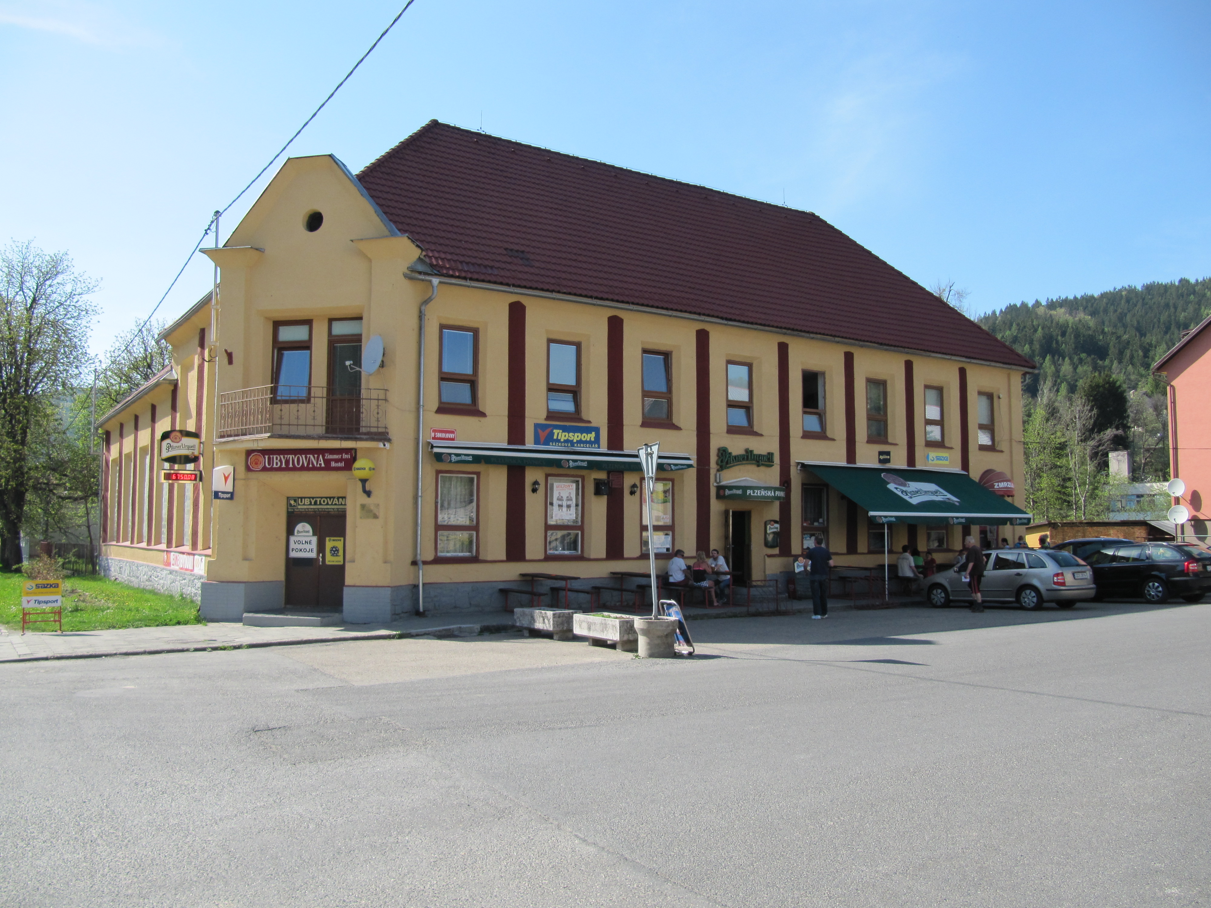 Karolinka, Vsetín District, Czech Republic.